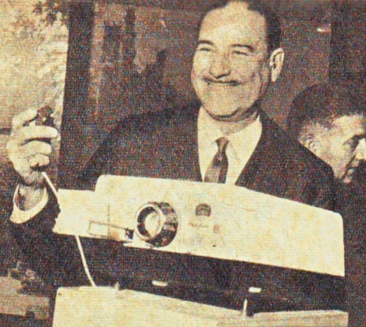 Osvaldo Sosa Cordero. Folk Musician from Argentina